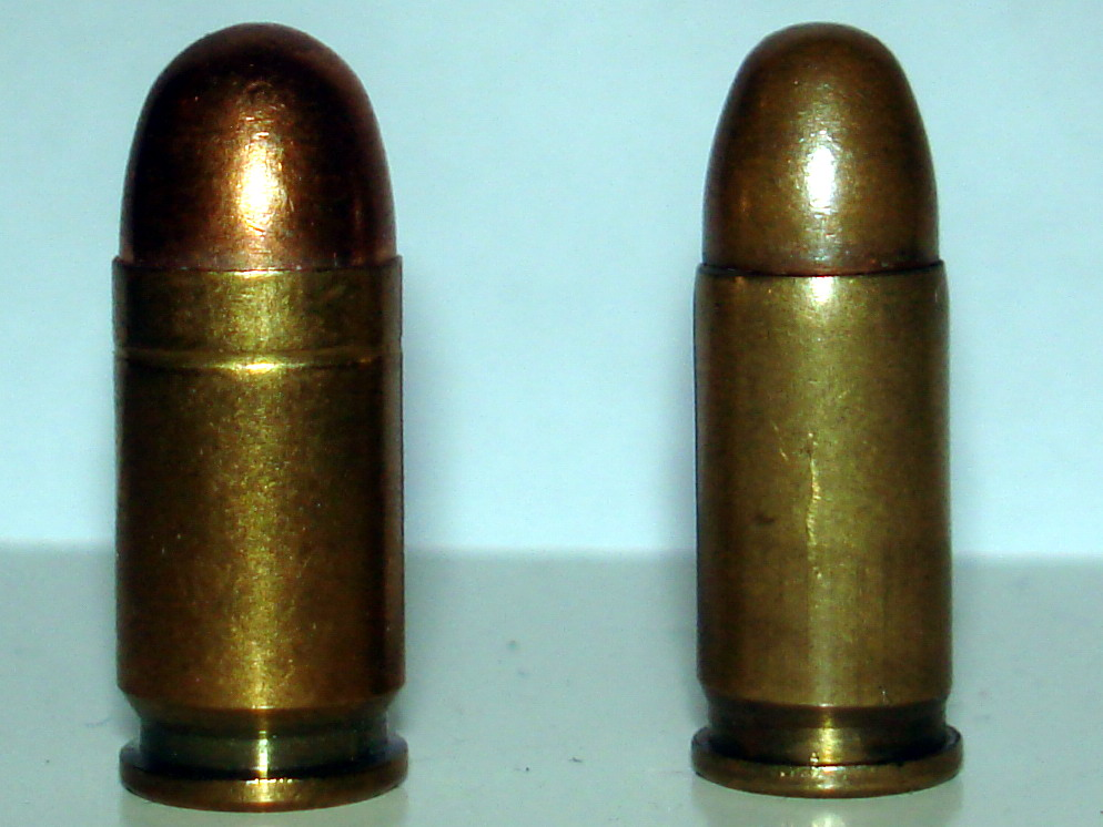 .380 ACP (left), compared to .32 ACP (right). Yugoslavian made, standard FMJ.